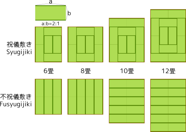 畳の敷きかた / a layout of tatami